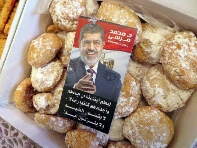 Original description: "Protesters say they are making these Ramadan sweets, known as 'kaka', in honor of ousted President Mohamed Morsi who they want reinstated. (Heather Murdock for VOA)"